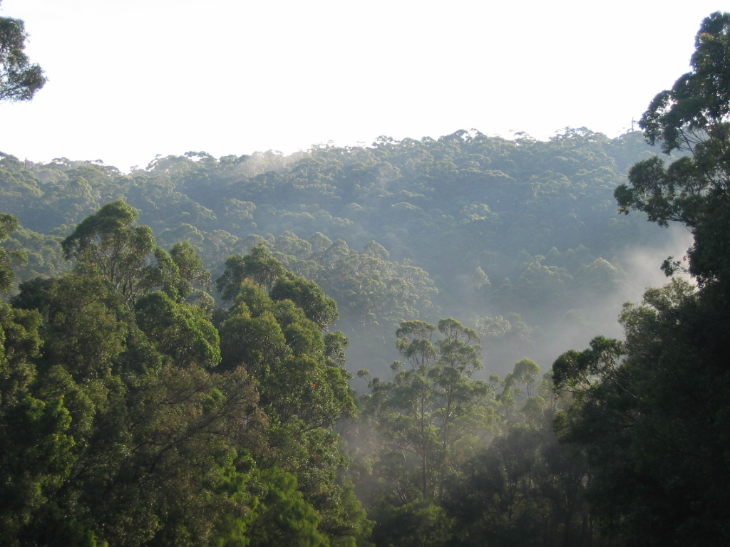 Karri forest near Cascades at Pemberton, Western Australia, early morning haze visible.